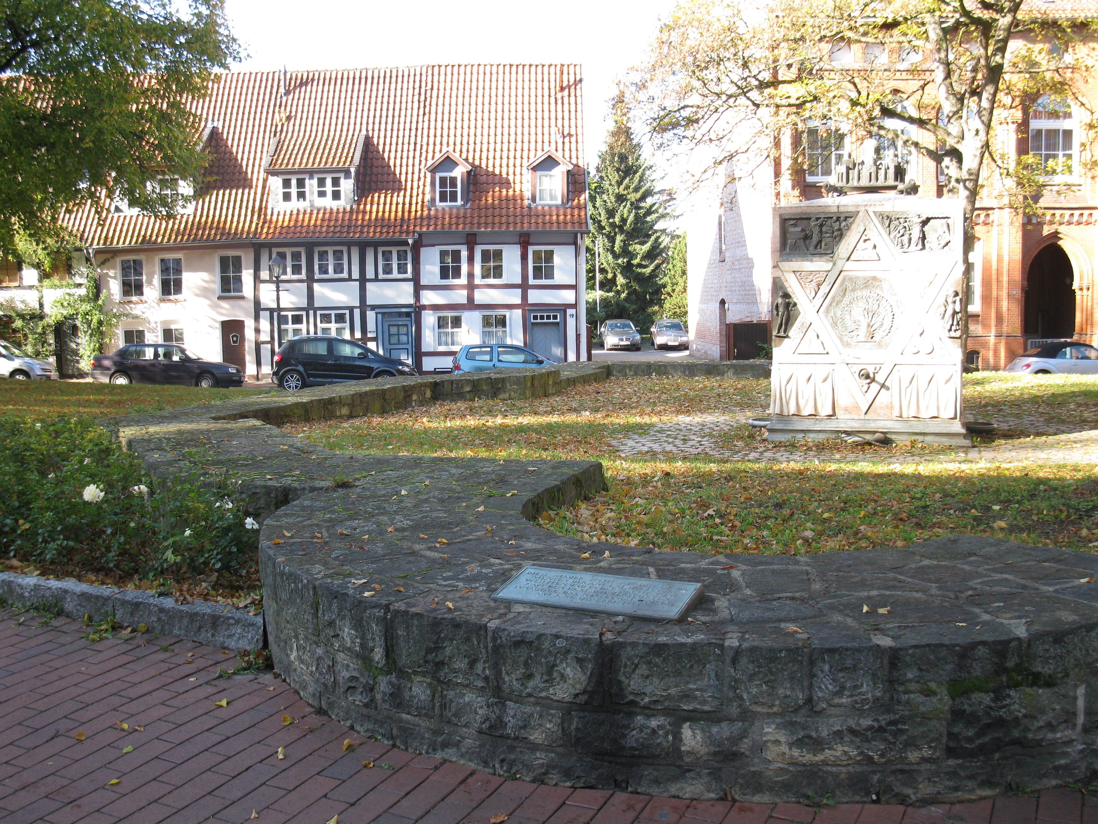 Synagogue memorial, Hildesheim